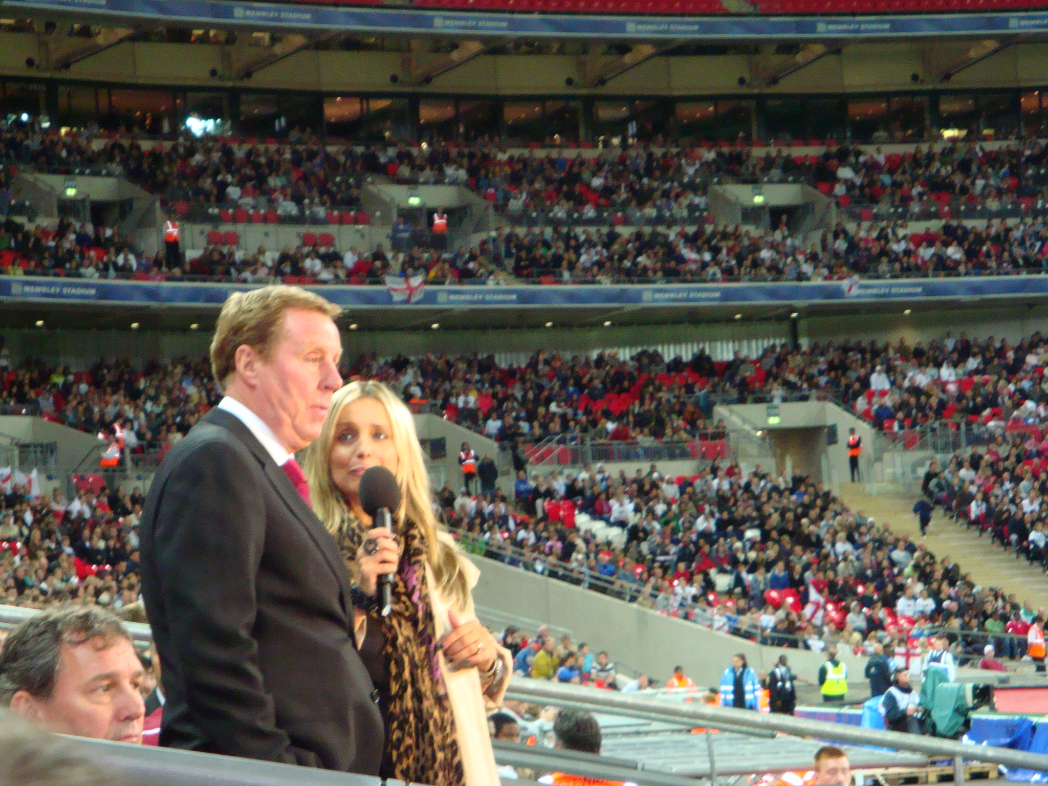 Louise Redknapp interviews her father-in-law Harry during Soccer Aid 2008